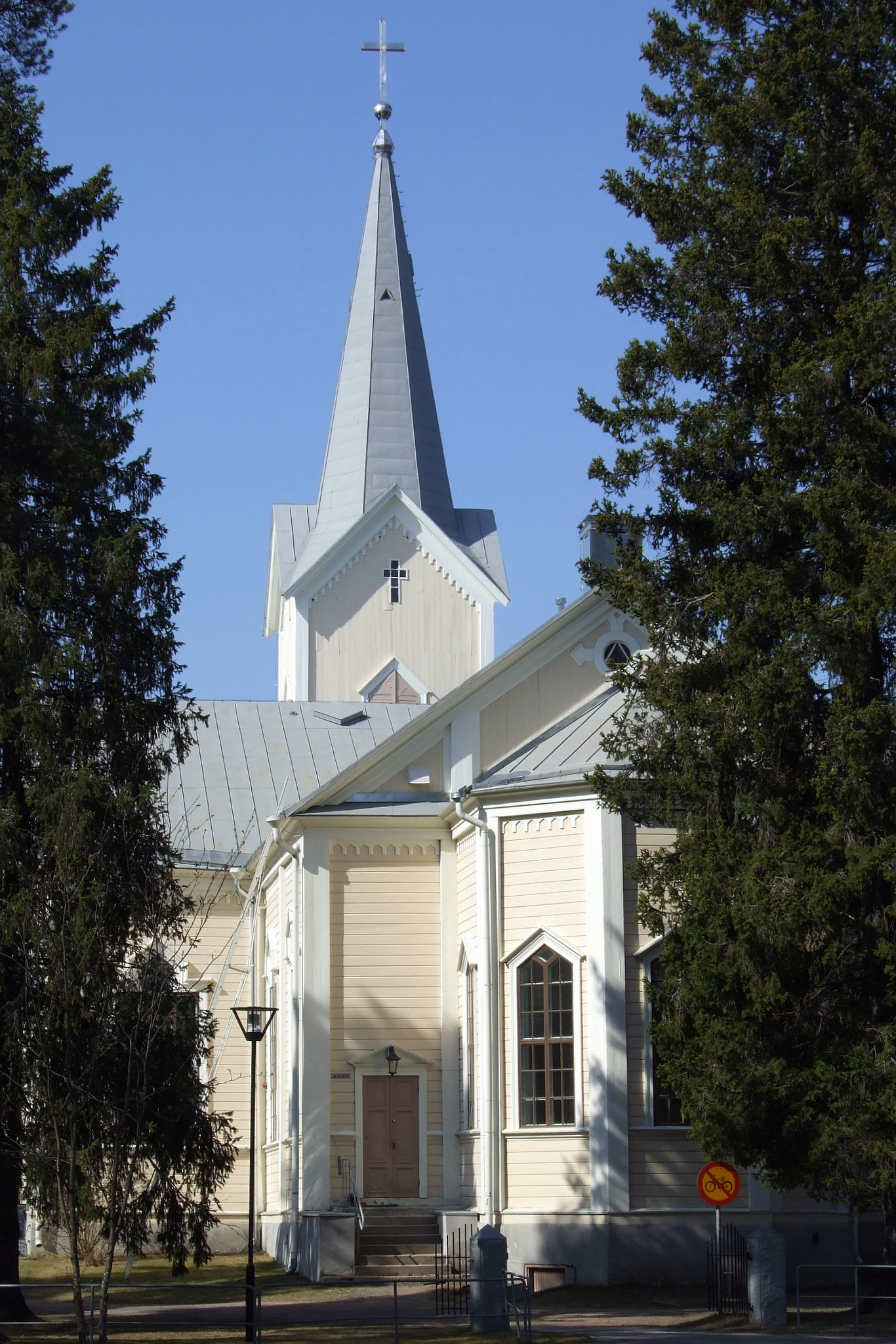 The church of Tyrnävä (Finland) has been completed in 1873 and it was designed by architect F.W.Lüchow.